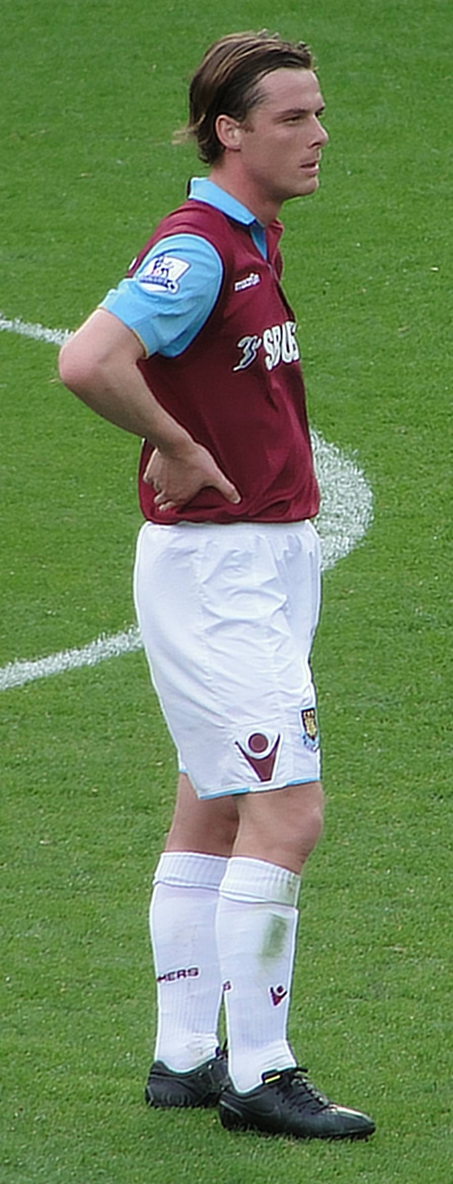 West Ham United player Scott Parker playing in their last game of the 2010-11 season, against Sunderland, at the Boleyn Ground, London.